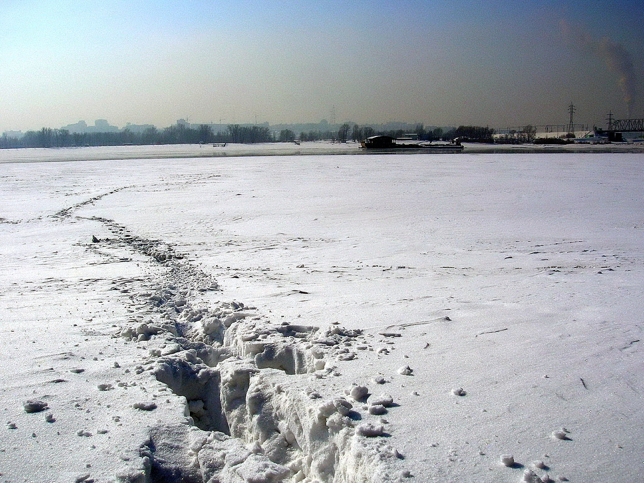 Ob River. Novosibirsk (Russia).